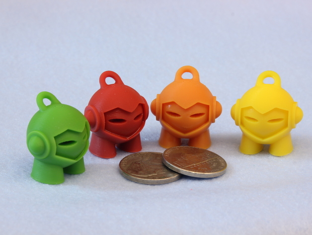 Marvin Keychain